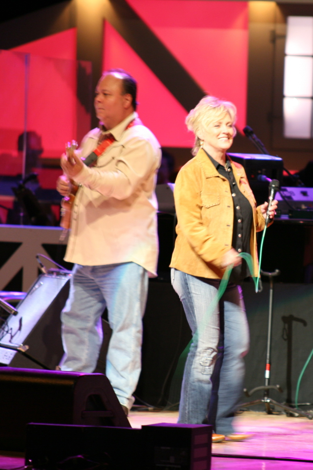 Connie Smith standing aside her guitar player at the Grand Ole Opry (May 18, 2007).